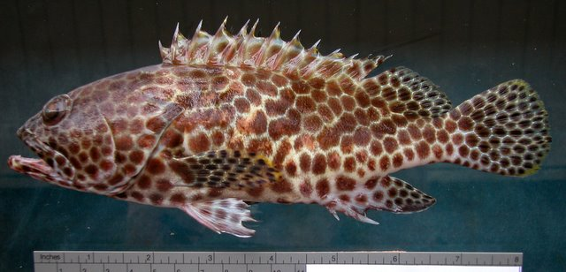 Epinephelus merra (Serranidae, Epinephelinae). Locality: Récif Aboré, off Nouméa, New Caledonia. Fork Length 225 mm, Weight 222 grams. Date 2005-03-22.